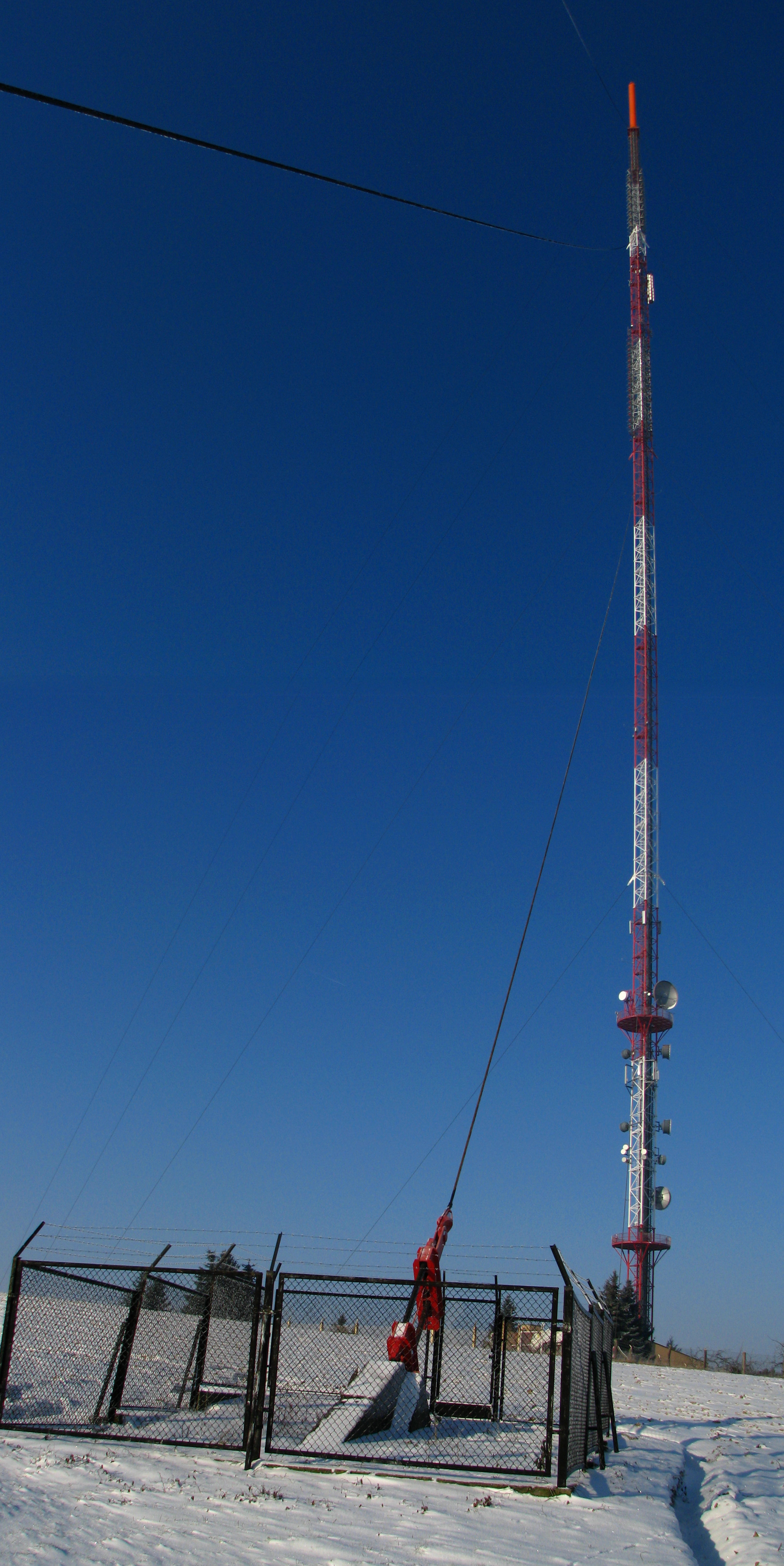 Radio and television tower. Śrem. Poland.